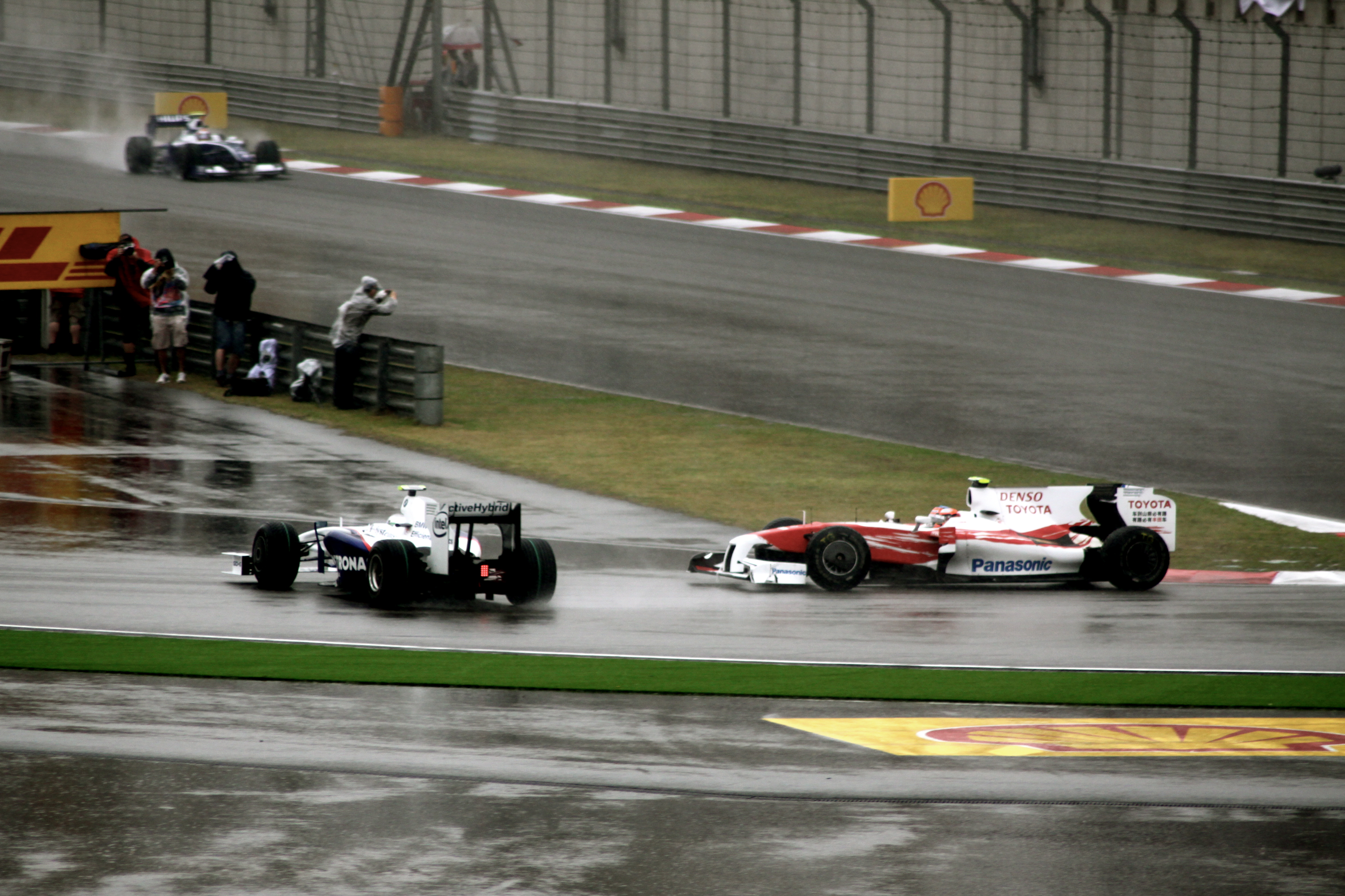 Nick Heidfeld (BMW Sauber) & Timo Glock (Toyota). China 09